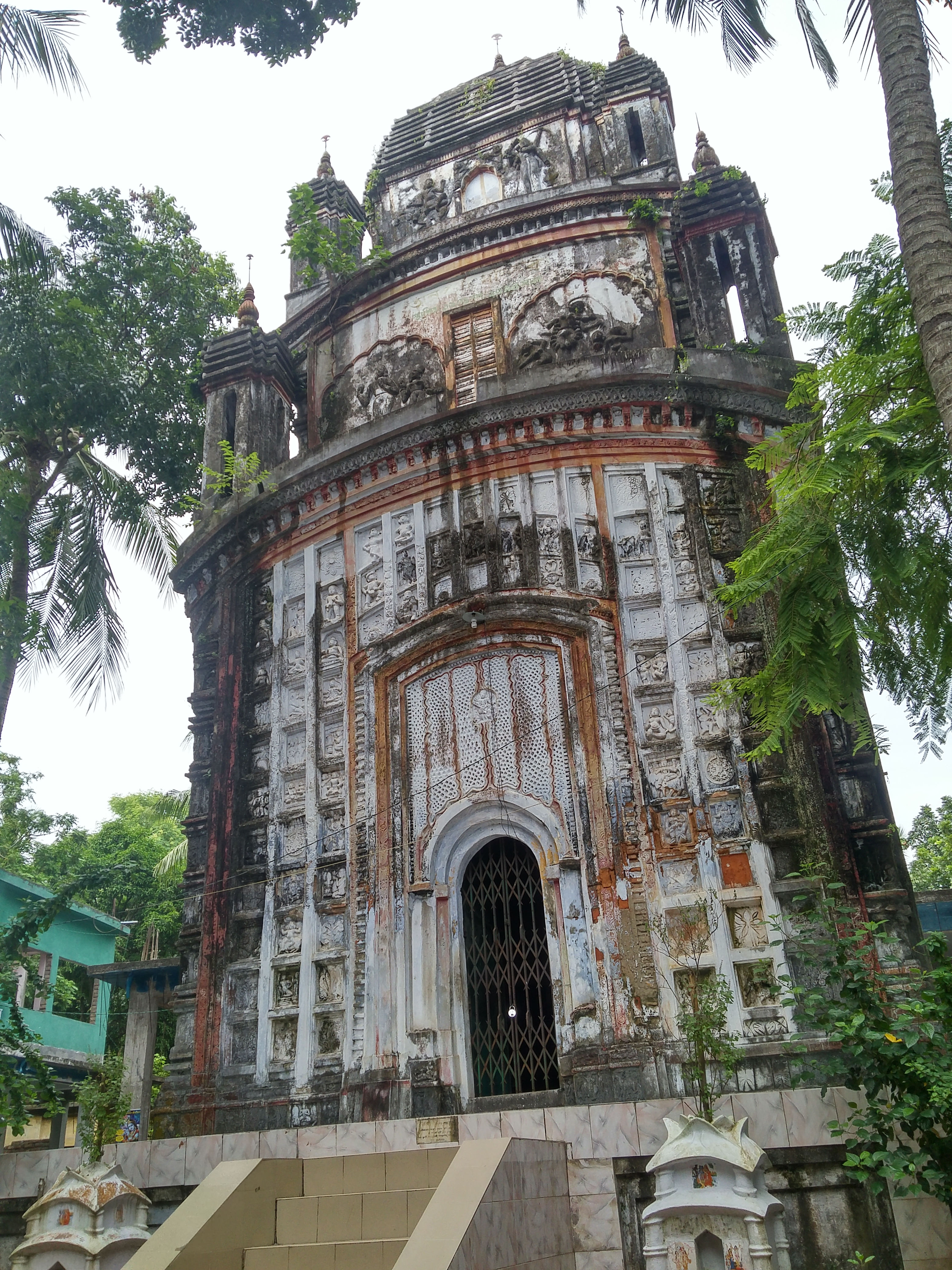 Annapurna Temple